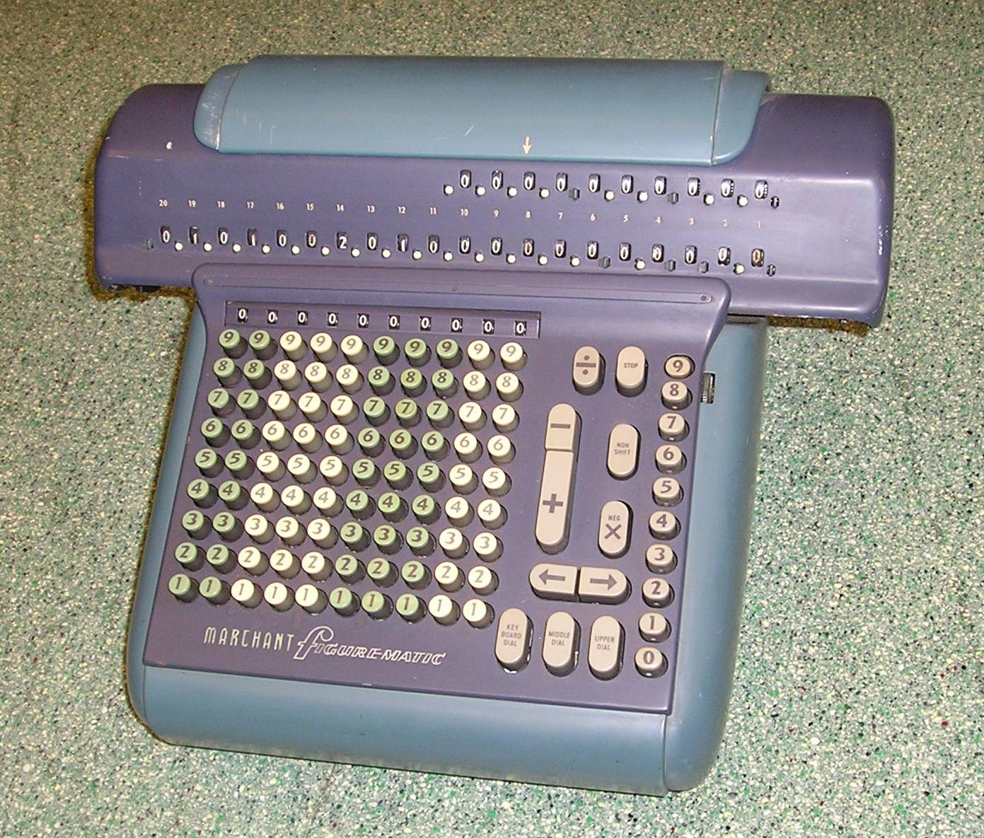 Marchant Figurematic 10 SDX (1950-1952)